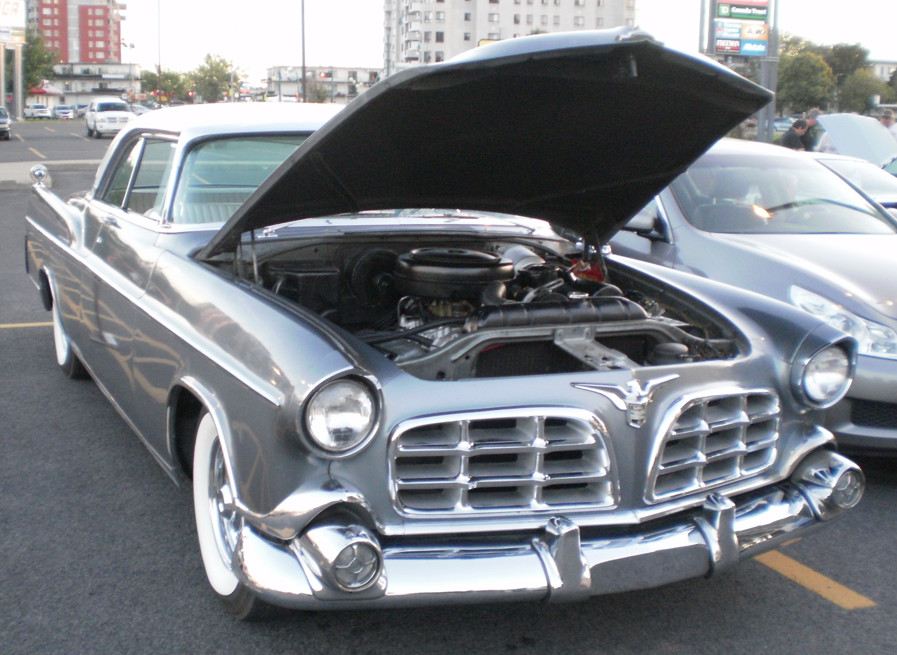 Imperial photographed in Montreal, Quebec, Canada at A&W St._Léonard.